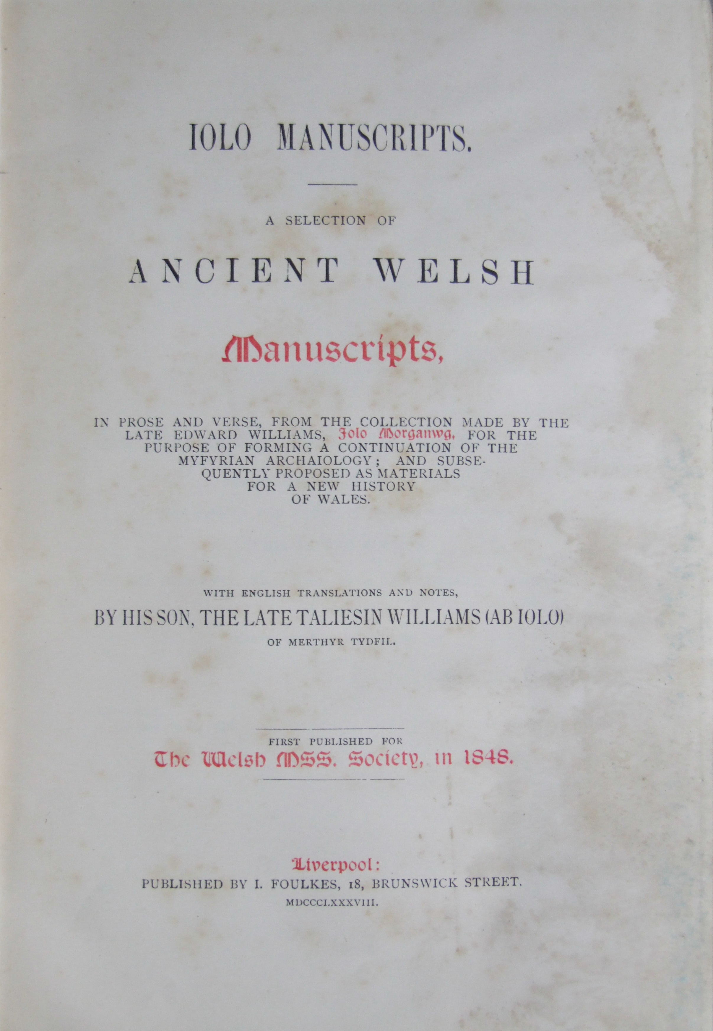 Title page of the Iolo Manuscripts (originally published by The Welsh Manuscripts Society in 1848). Second facsimile edition, Isaac Foulkes, 1888. This (in)famous collection of antiquarian forgeries by Iolo Morganwg (1747-1826) misled several generations of scholars and is sometimes taken as a genuine source by fringe "researchers" and neo-pagans even today.